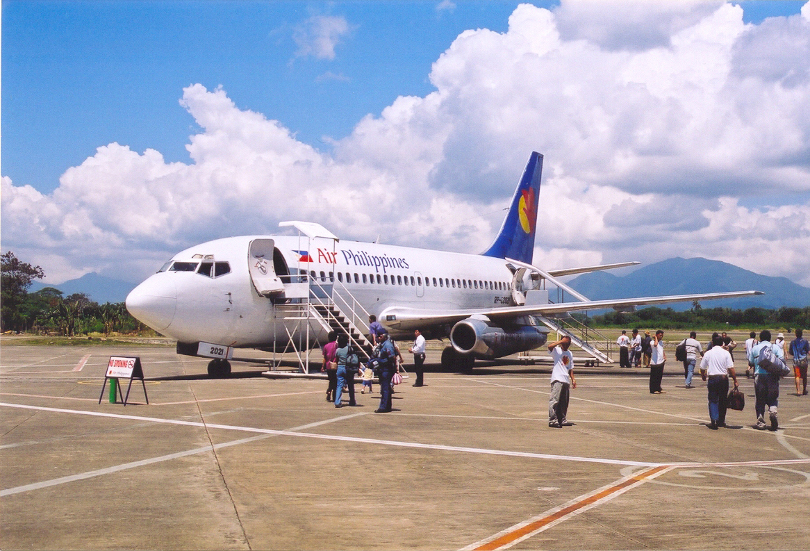 Air Philippines flight to Manilla ready for boarding at Puerto Princessa airport Picture taken by Magalhães in 2003.